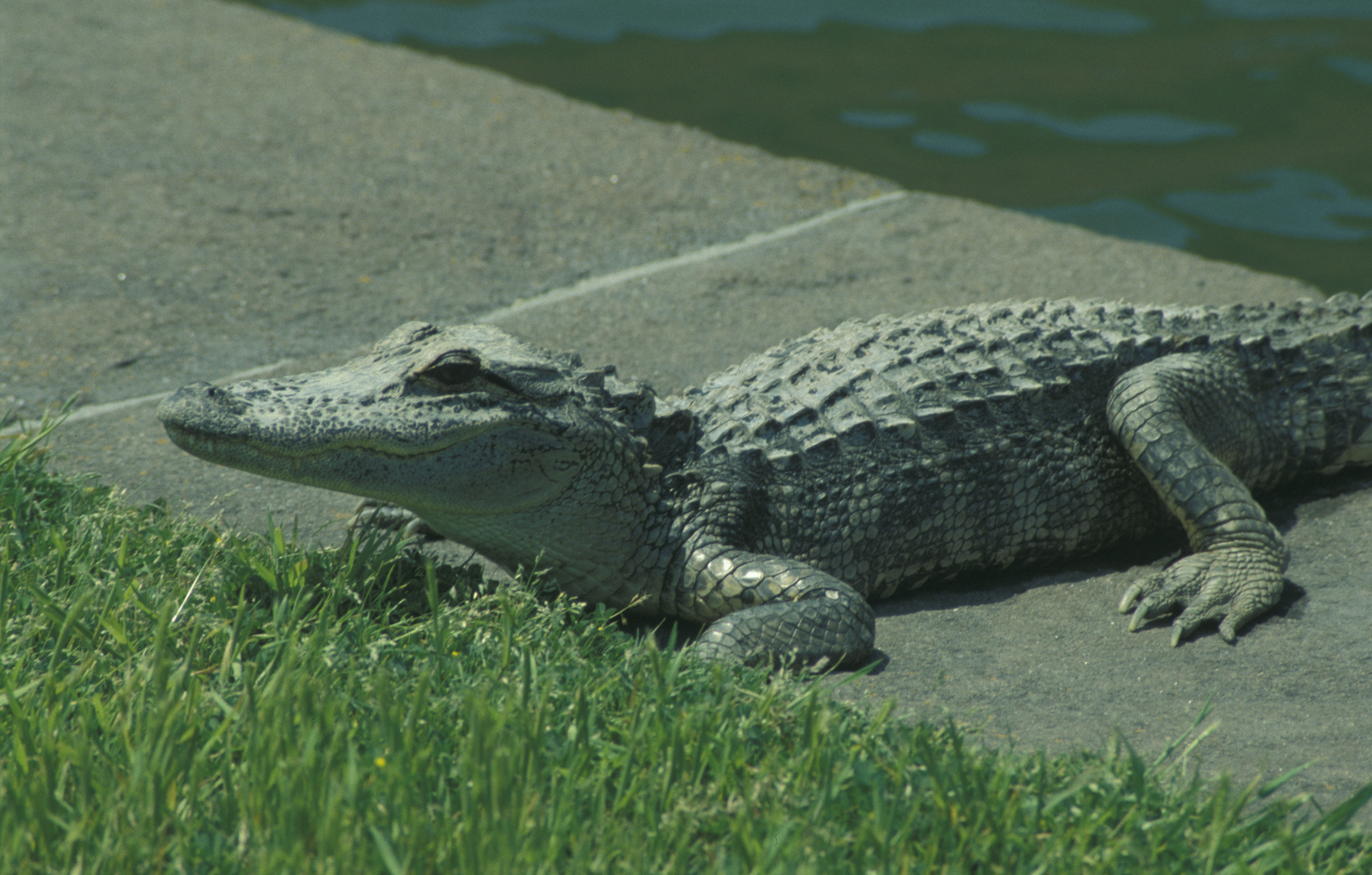 Alligator sunbathing at Fort Pulaski National Monument (US-GA)